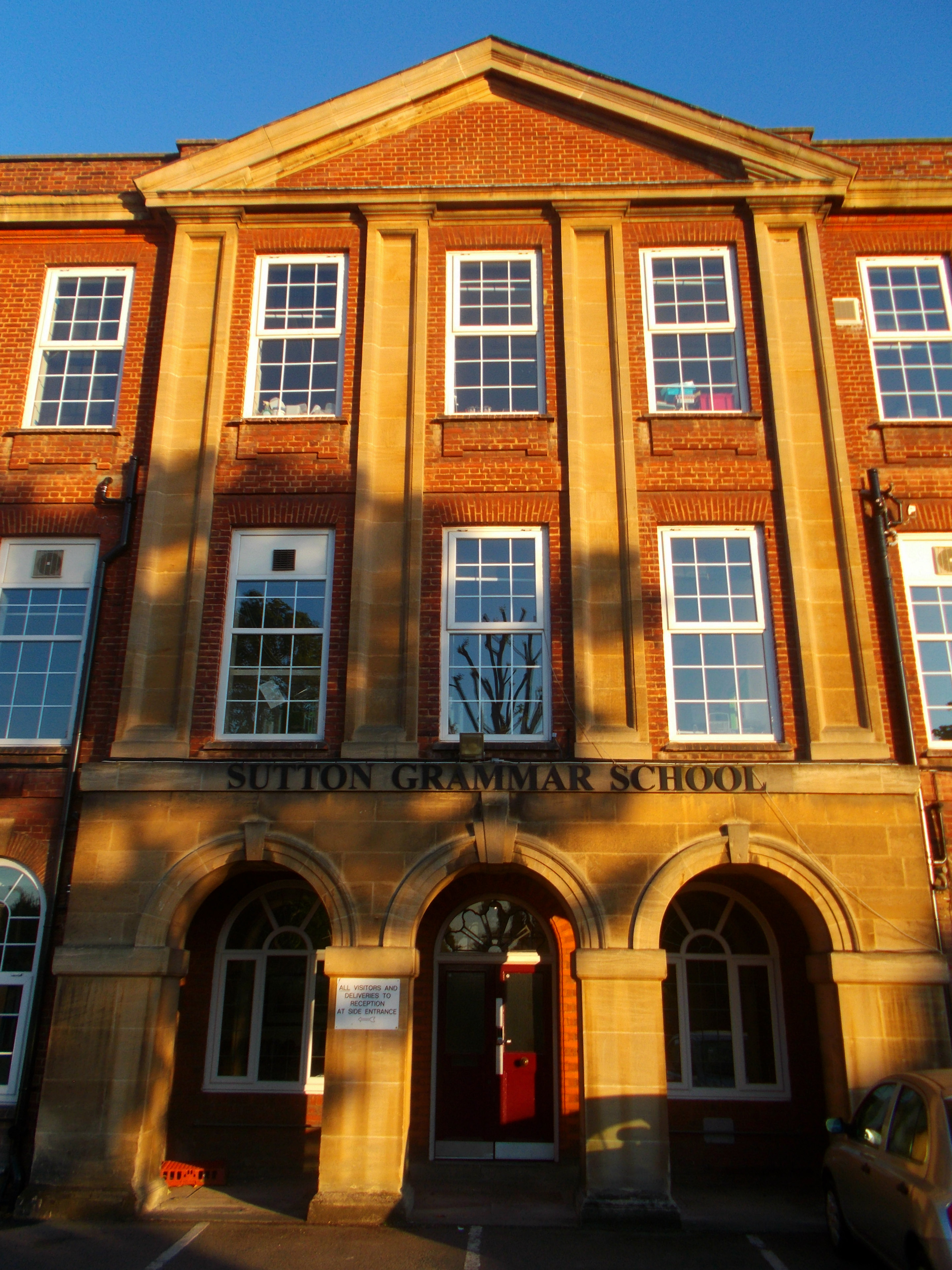 Sutton Grammar School for Boys, SUTTON, Surrey, Greater London